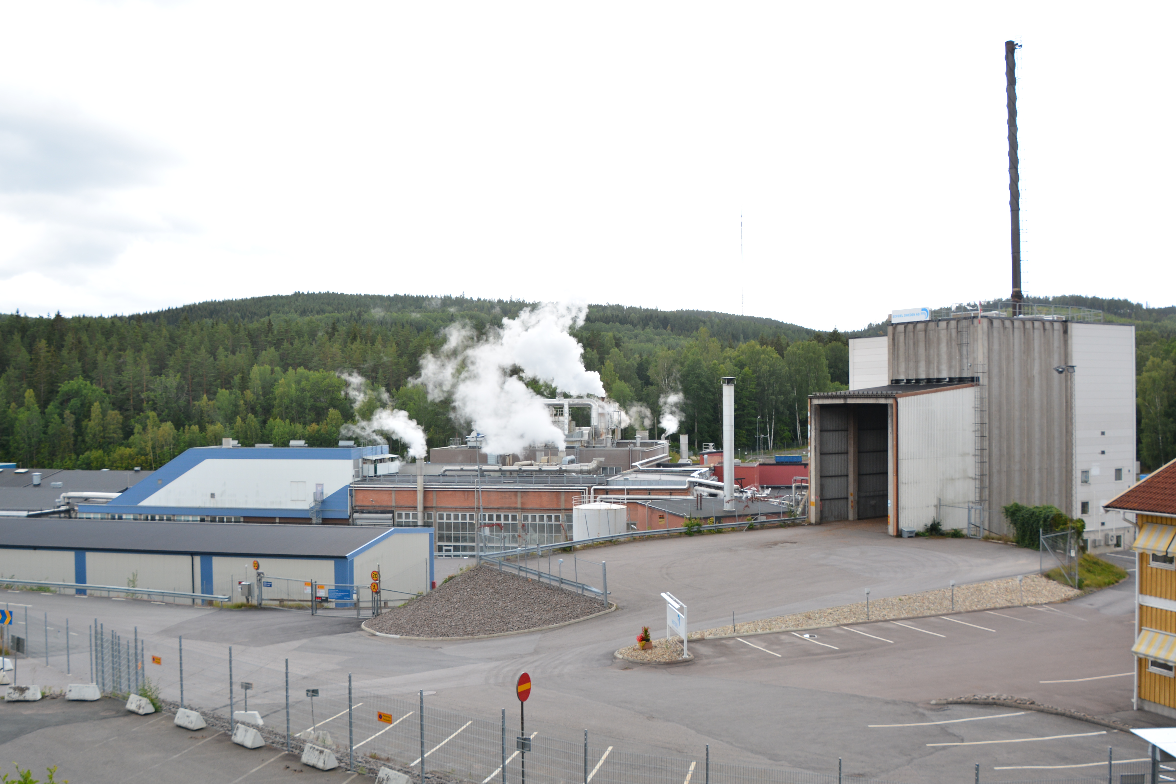 Tissue mill at Kisa, Kinda Municipality, Sweden. Sofidel Sweden AB